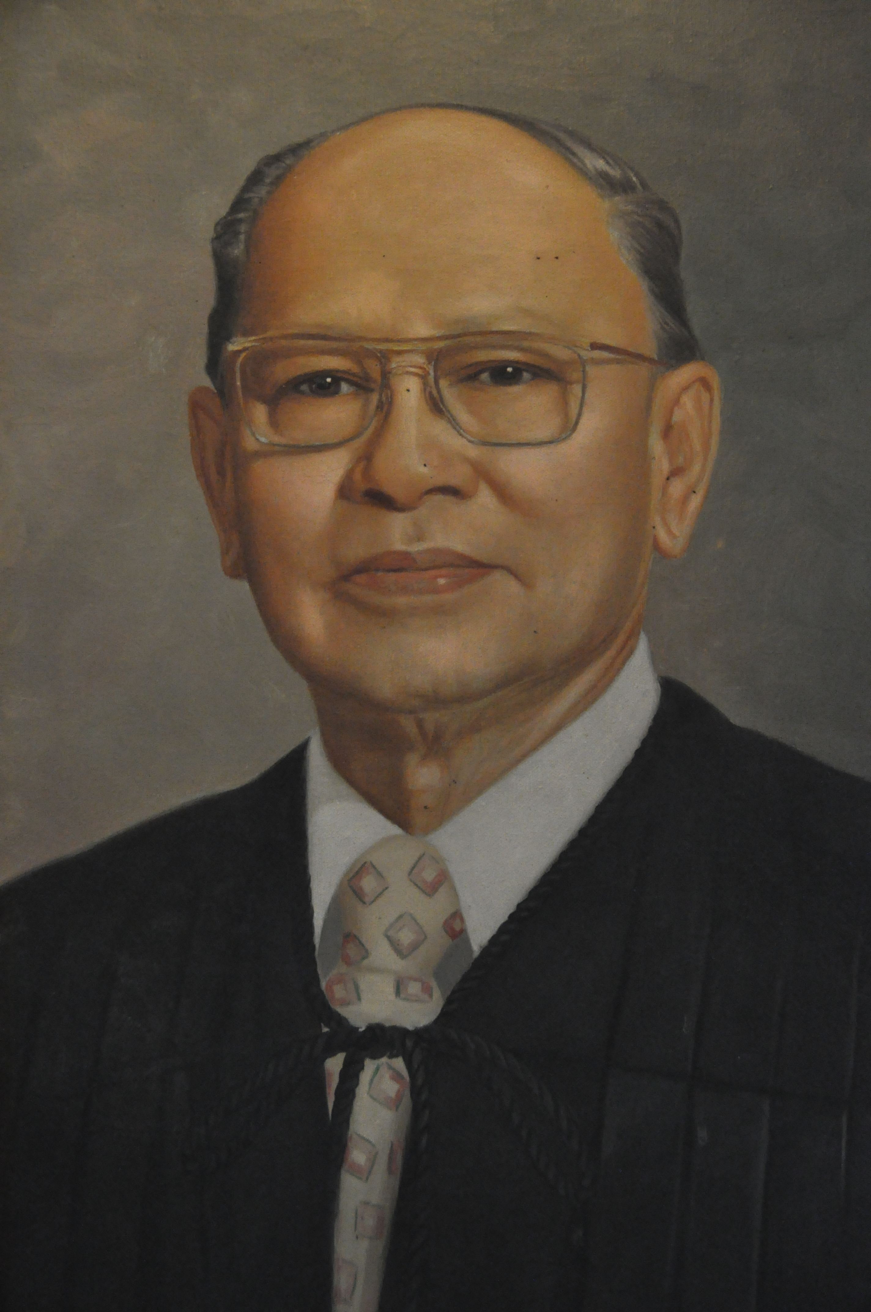 CJ Makalintal - 11